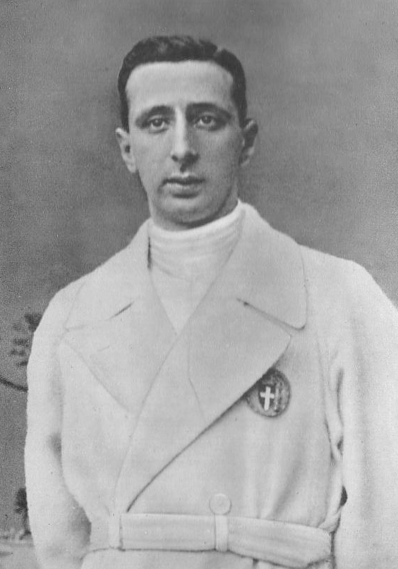 G- CARTOLINA SCHERMA SPADA CAMPIONI DELLO SPORT SERIE I N.25 SAVERIO RAGNO- GE32